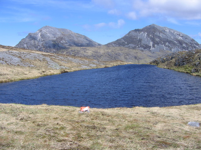 Un-named lochan framed by the Paps. This un-named lochan is the only major feature in this square that otherwise consists of rough upland pasture. Looking at two of the Paps of Jura, Beinn an Oir and Beinn Shiantaidh